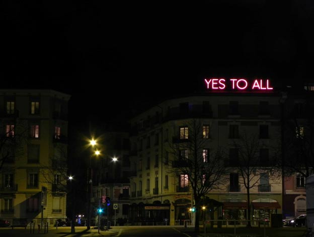 Sylvie fleury's Installation on a roof around the "Plaine de Plainpalais", Geneva, Switzerland. Belong to the Neons Project of the FMAC and FCAC.